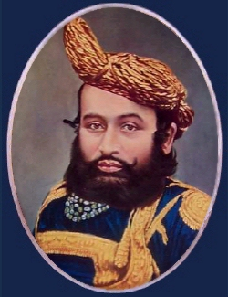 Mohammad Mahabat Khanji II, Nawab of Junagadh, reign 1851 - 1882